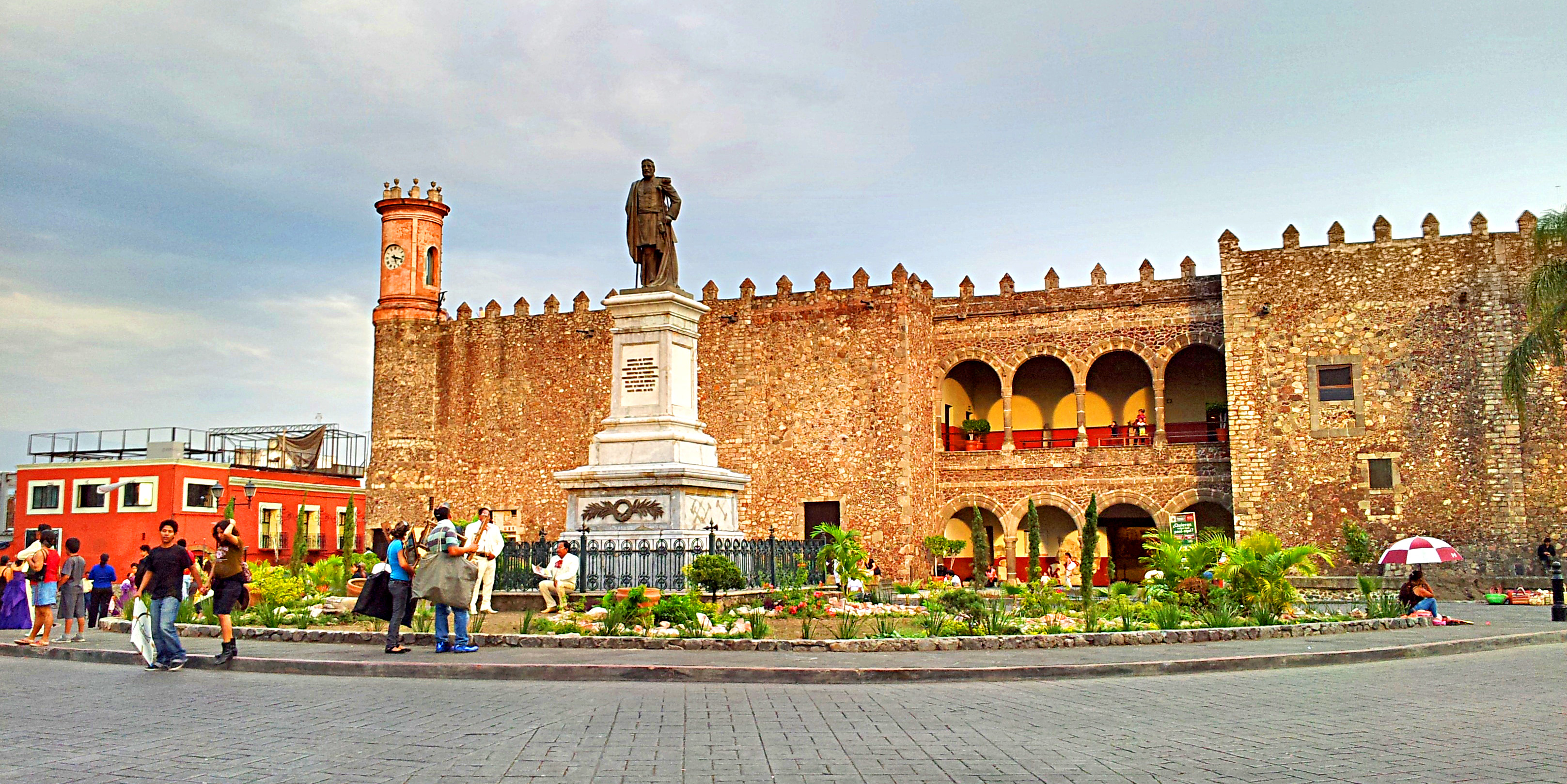 palacio de Cortés in Cuernavaca